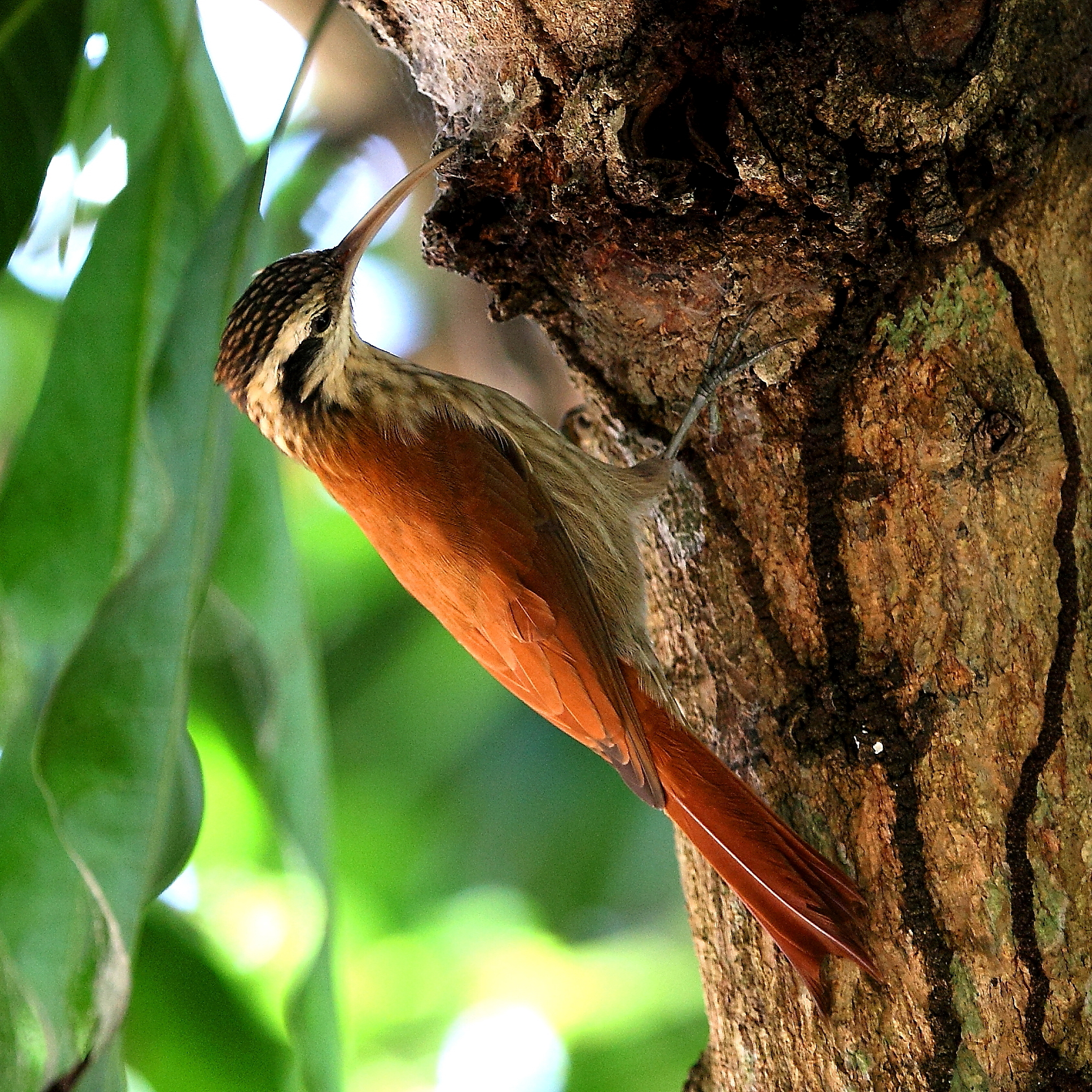 Narrow-billed Woodcreeper at Bonito - MS - Brazil